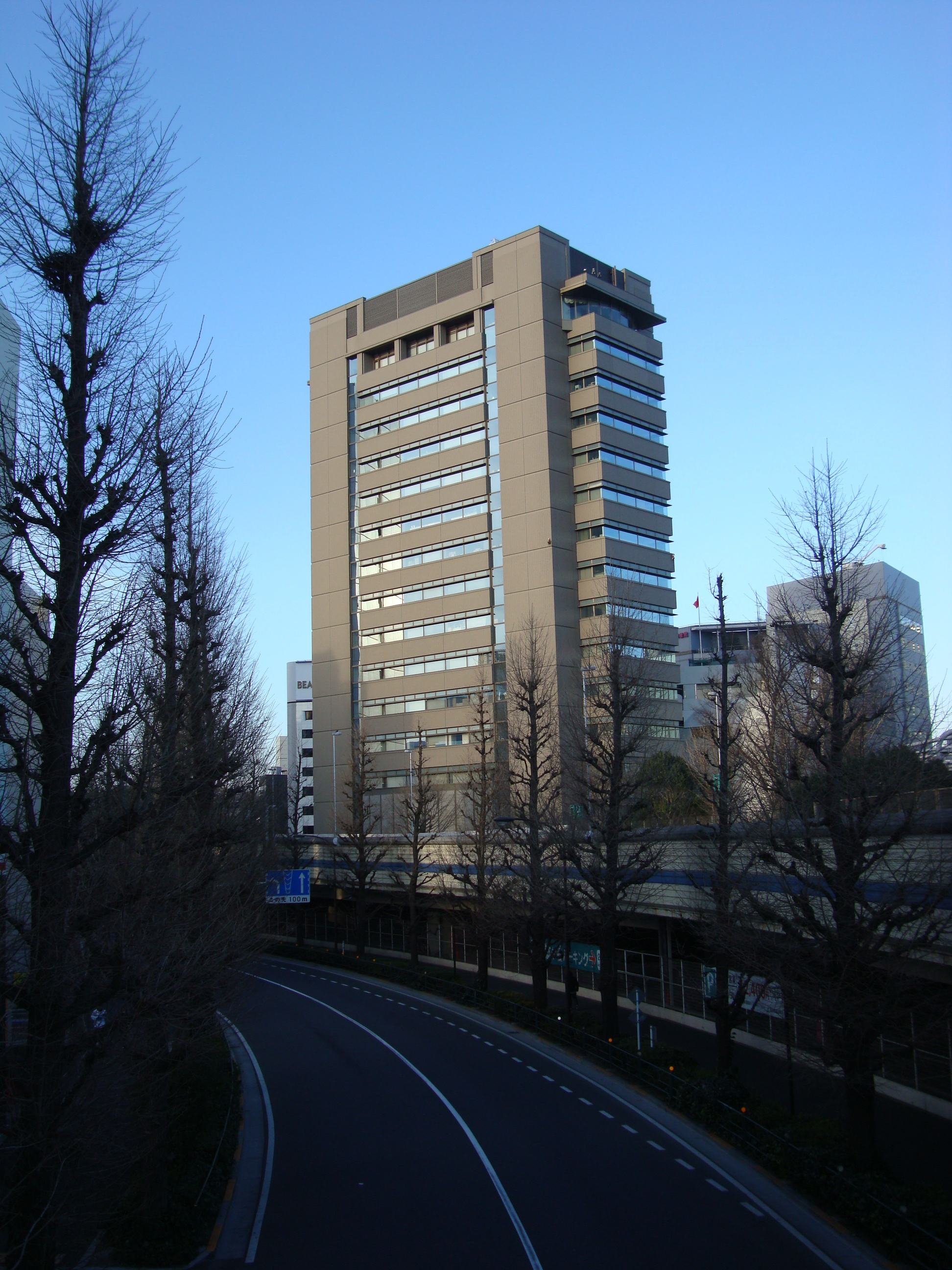 Landscape of Sendagaya, Tokyo. The tall building in the center of the photo is the SYD building. Two smaller white buildings on the right are head office of Japanese Communist Party.